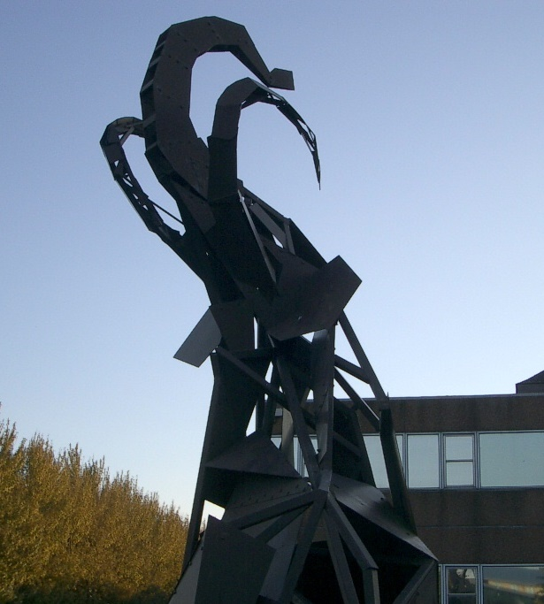 The Mammoth sculpture outside NTU's Erasmus Darwin building, oldest centre of scientific research at NTU.